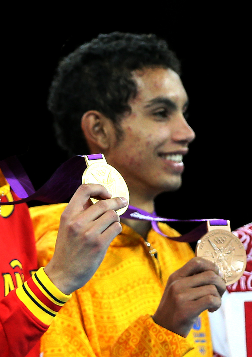 2012 London Olympic Games 2012.08.09 Photo by Korean Olympic Committee Ministry of Culture, Sports and Tourism Korean Culture and Information Service 2012 런던 올림픽 남자 태권도 -58kg 이대훈 은메달 획득 사진제공 - 대한체육회 문화체육관광부 해외문화홍보원